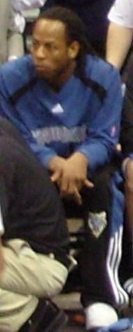 Troy Hudson on the bench